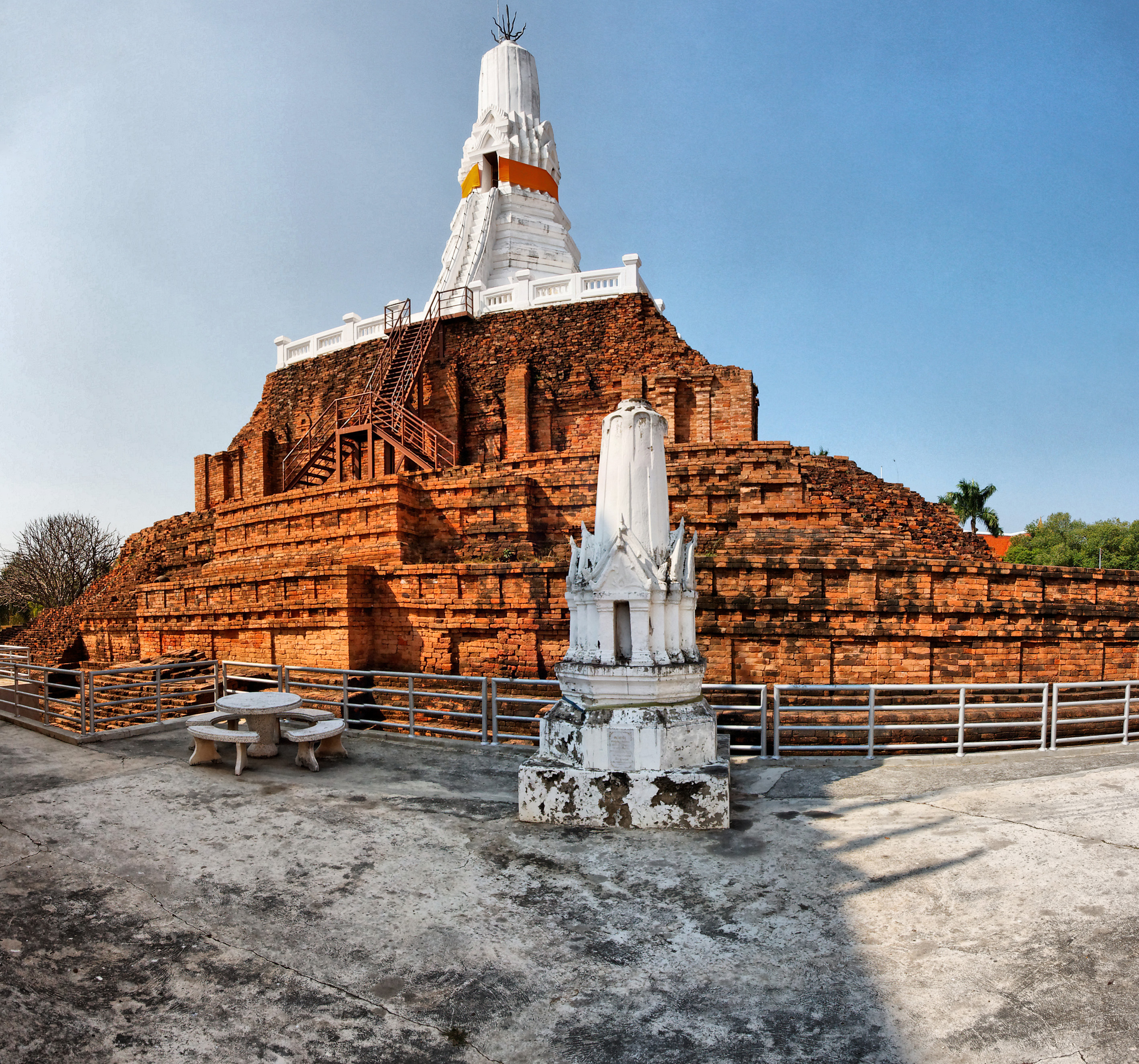 Chedi Phra Pathon is a Dvaravati temple in Nakhon Pathom, Thailand